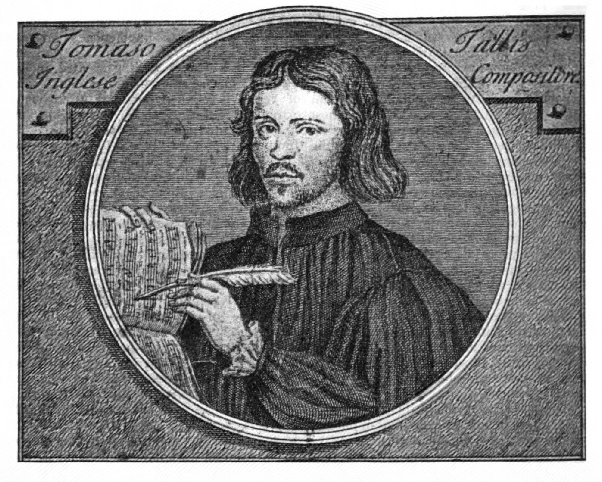 Thomas Tallis (1505 - 1585) English composer